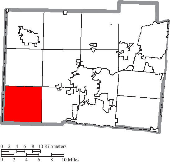 Map of the municipal and township boundaries of Butler County, Ohio, United States, as of the 2000 census, with the location of Morgan Township highlighted. Township borders are shown only in unincorporated areas in order to differentiate incorporated and unincorporated areas more clearly.